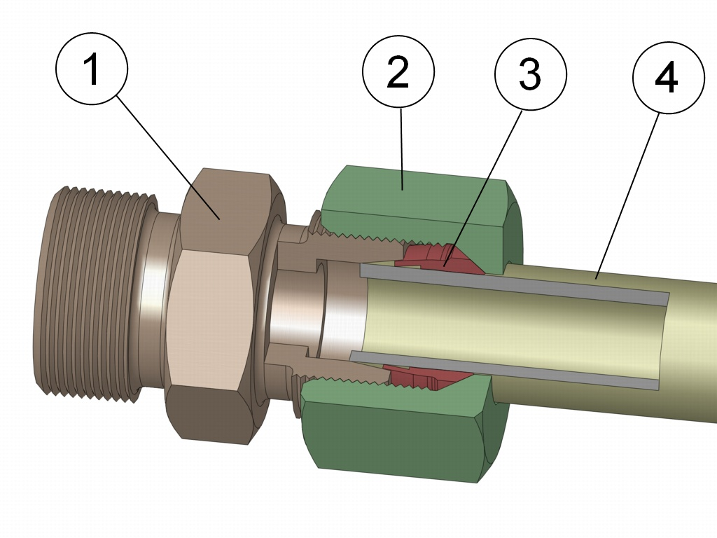 Cutting ring fitting Cutting ring fitting during mounting (cutting ring loose) 1-body 2-cap nut 3-cutting ring 4-pipe